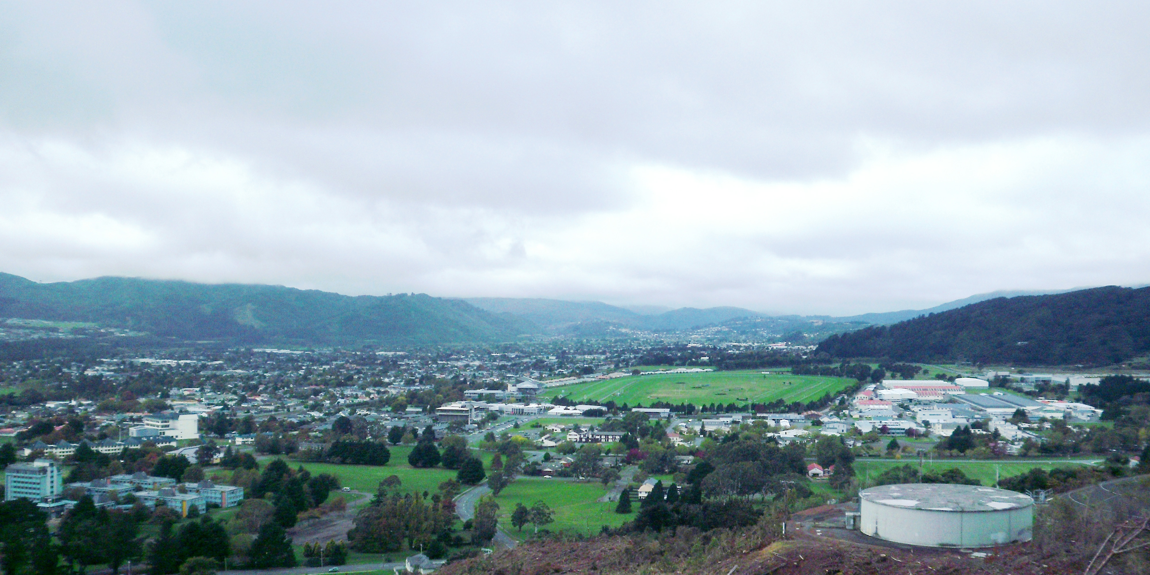 View of Upper Hutt City looking north from Silverstream. CIT buildings at bottom left, Trentham Racecourse in centre, Trentham Army Camp at right. Riverstone terraces on hill at left, Timberlea in background on hills.